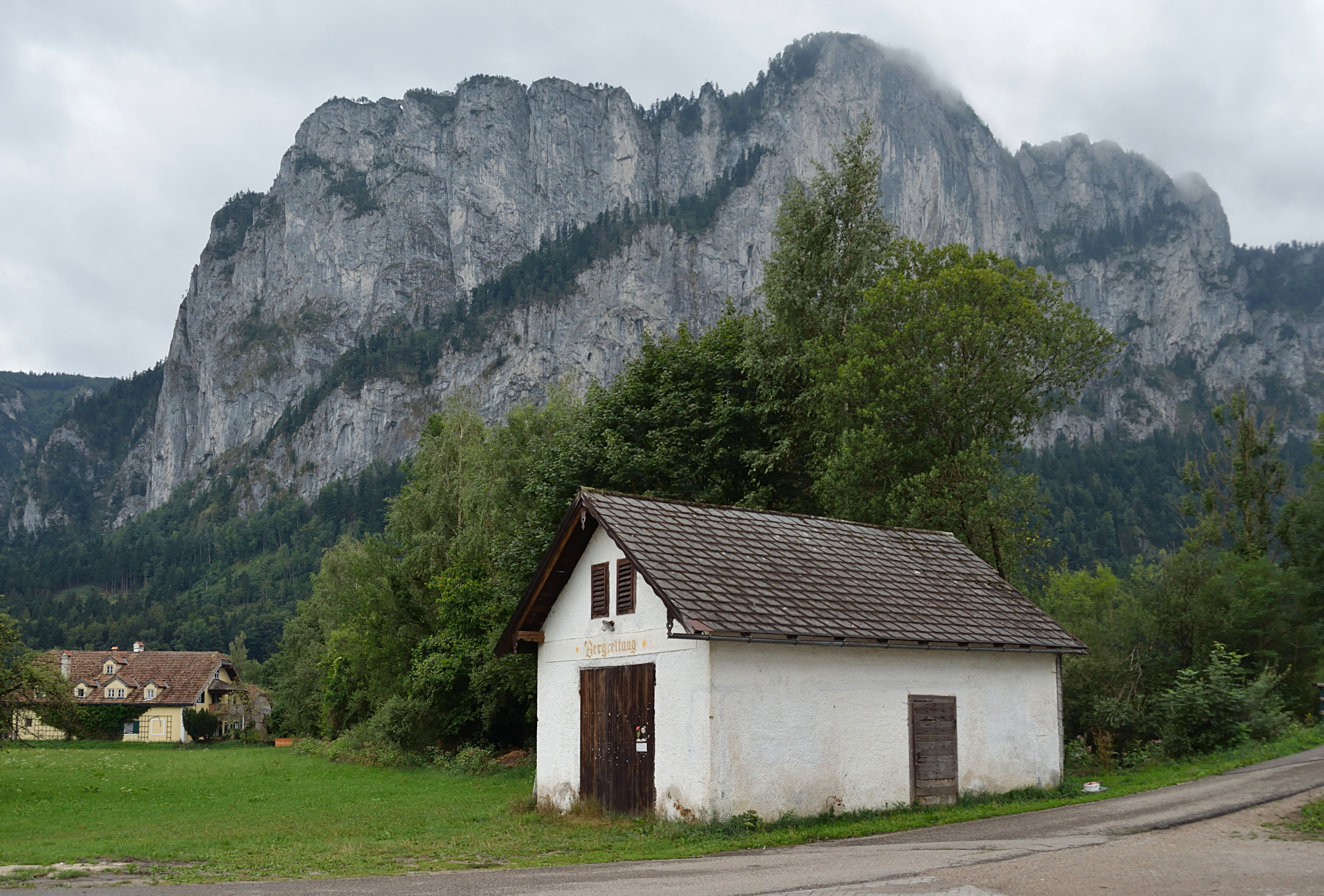 Old ÖBRD hut underneath the Drachenwand in Sankt Lorenz, Upper Austria.